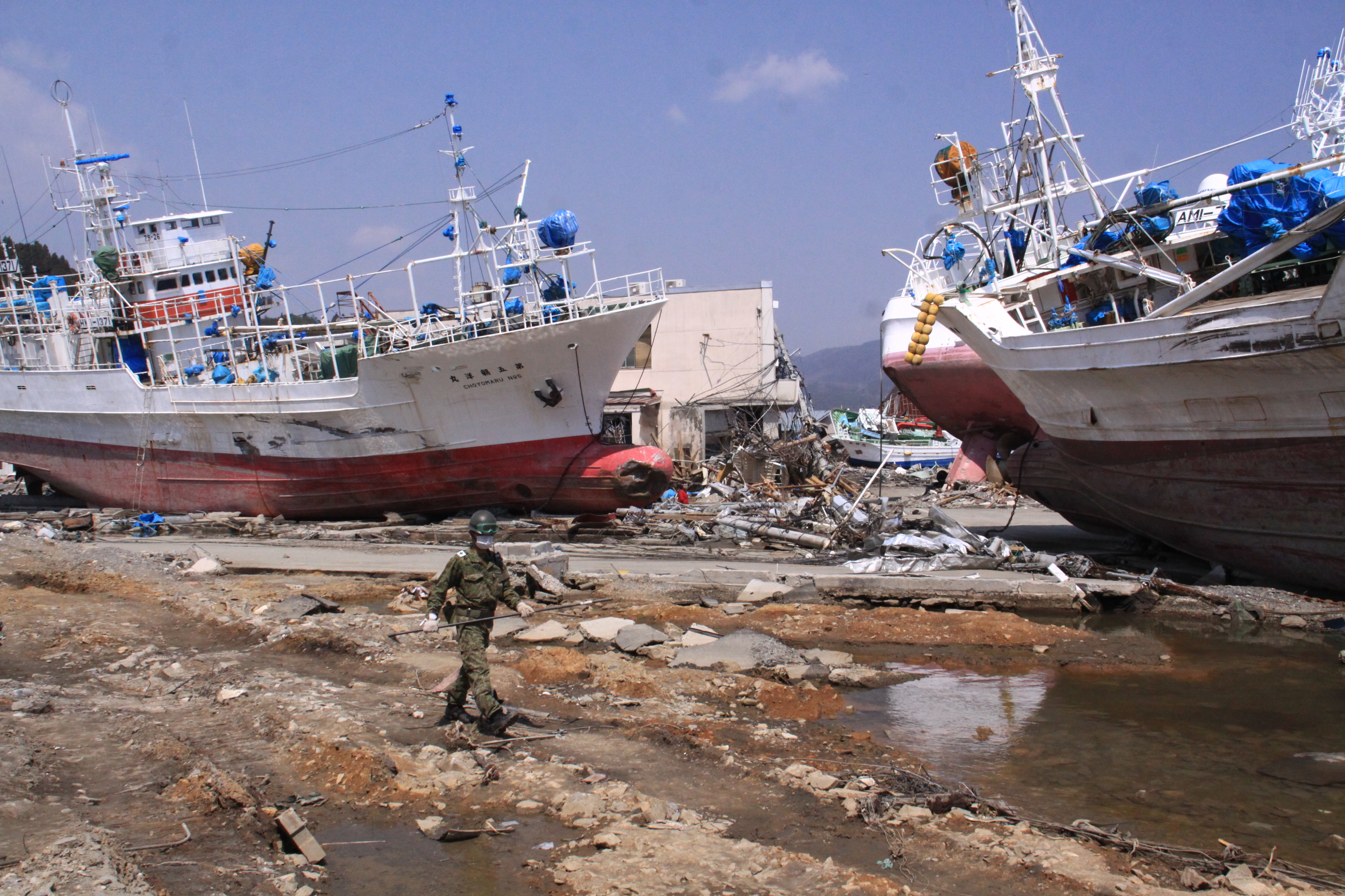 The Self Defense Forces personnel searching for missing person in Kesennuma, Miyagi.